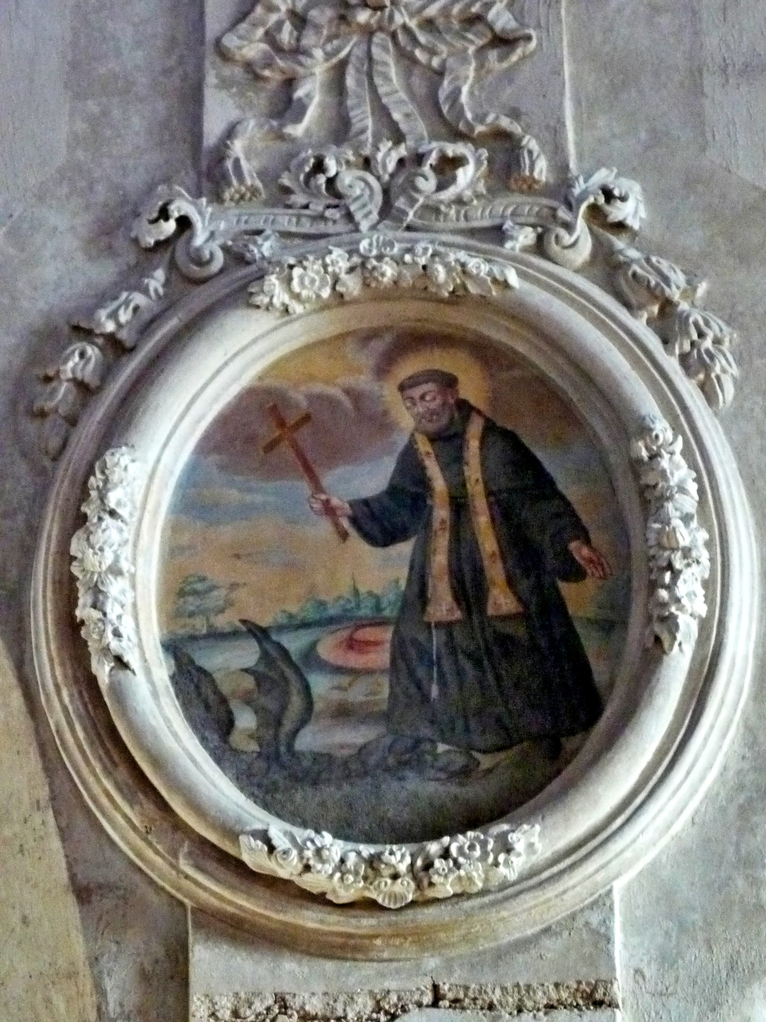 Inside the church - painting